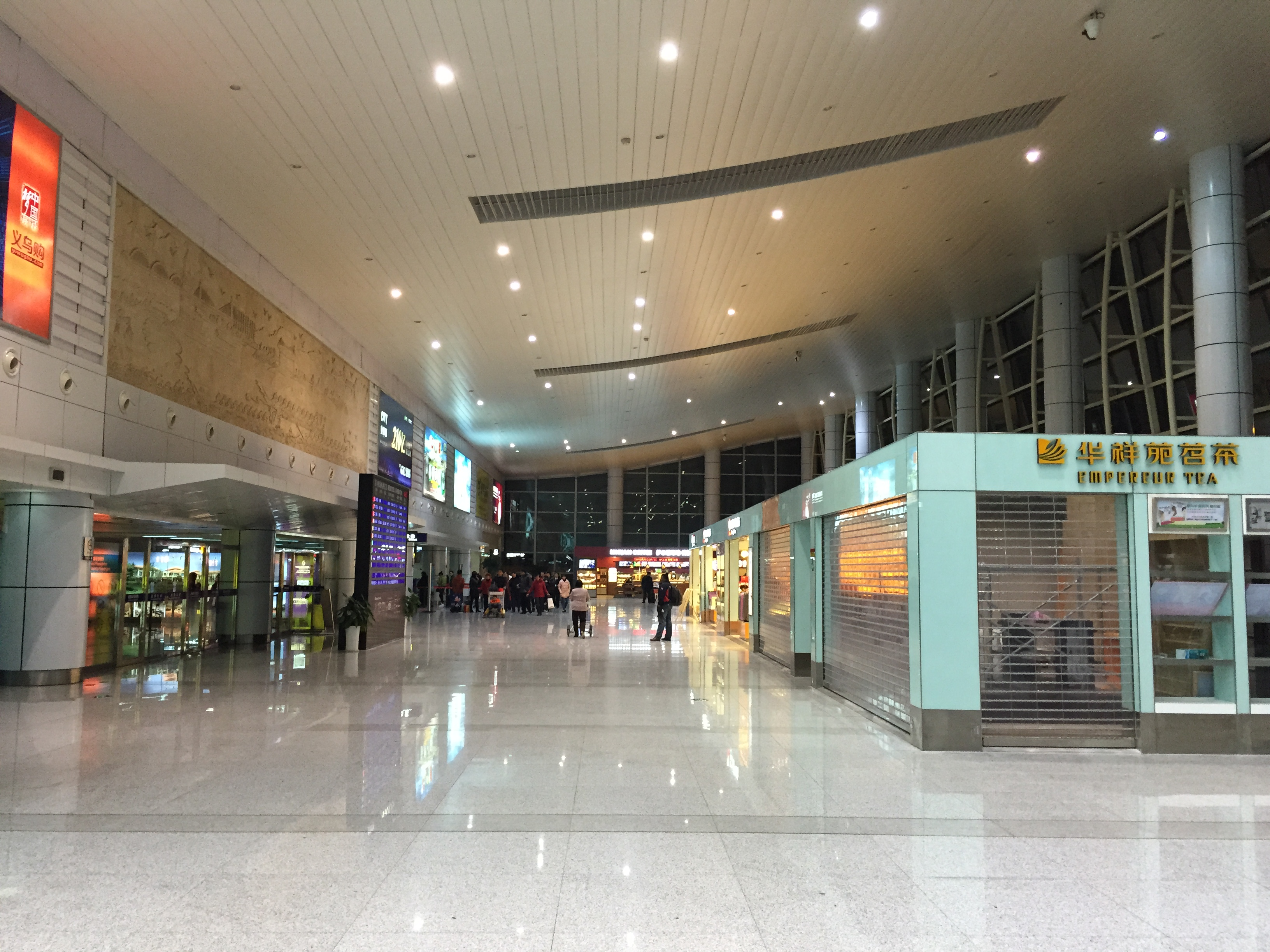 The domestic departure hall at Yiwu Airport on 31 January 2015